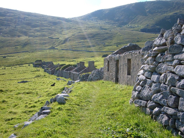 The High Street of the deserted village of Hirta, St Kilda — abandoned in 1930.